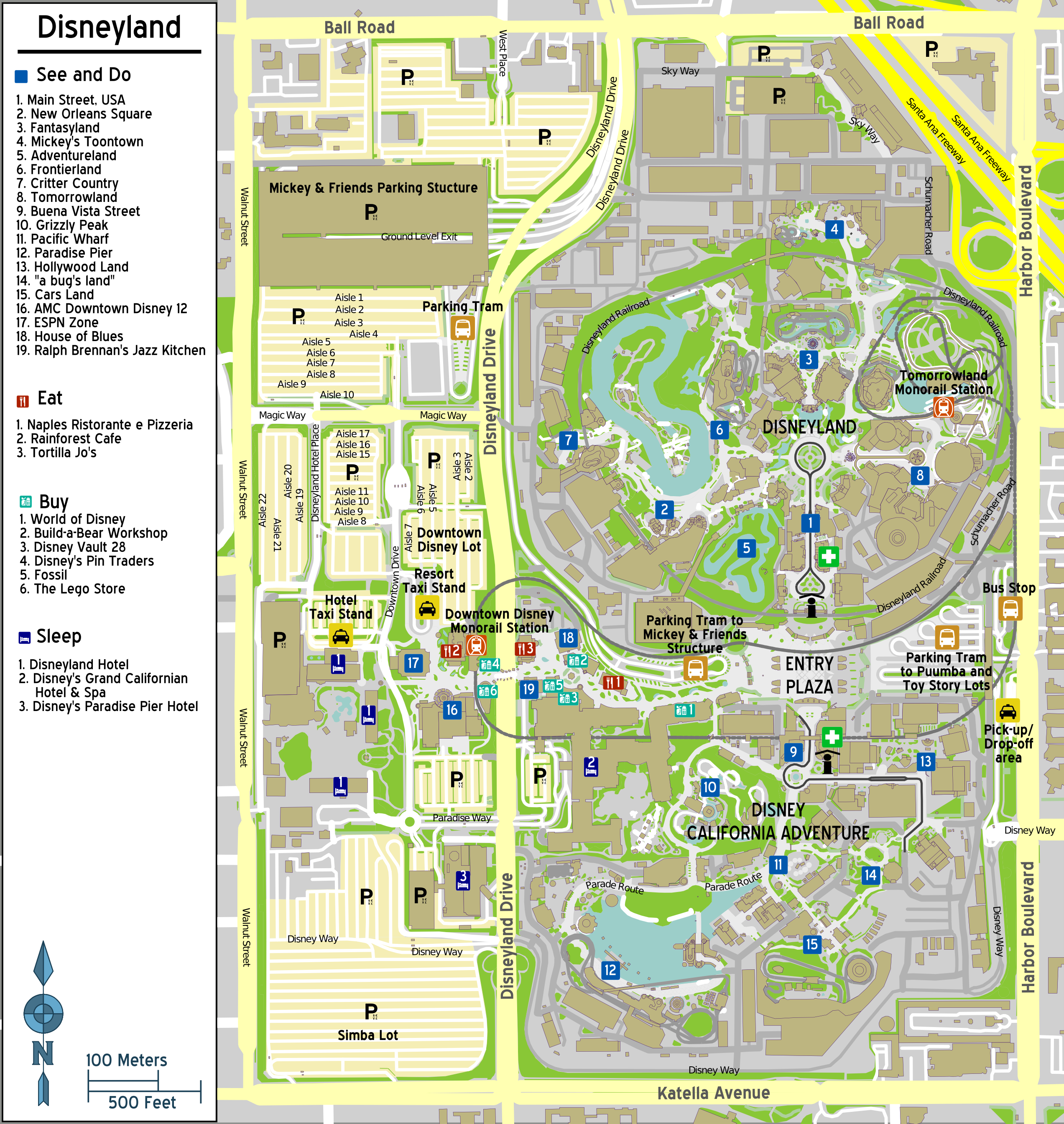 Map of Disneyland complex, moved here as part of Wikivoyage migration.